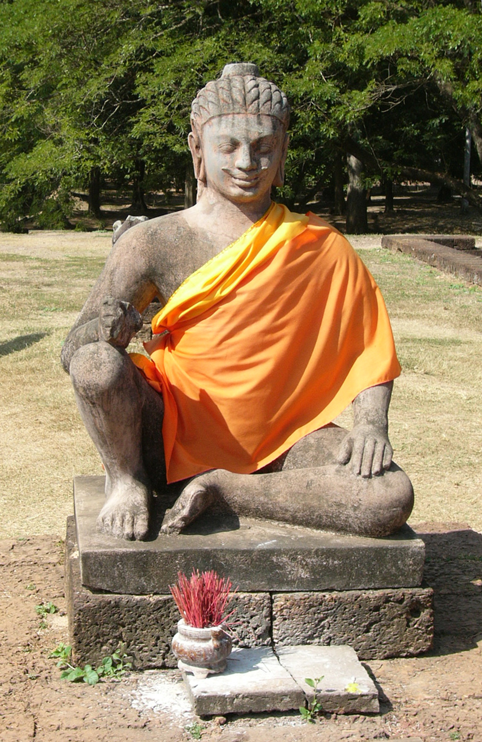 The famous statue on the Terrace of the Leper King.